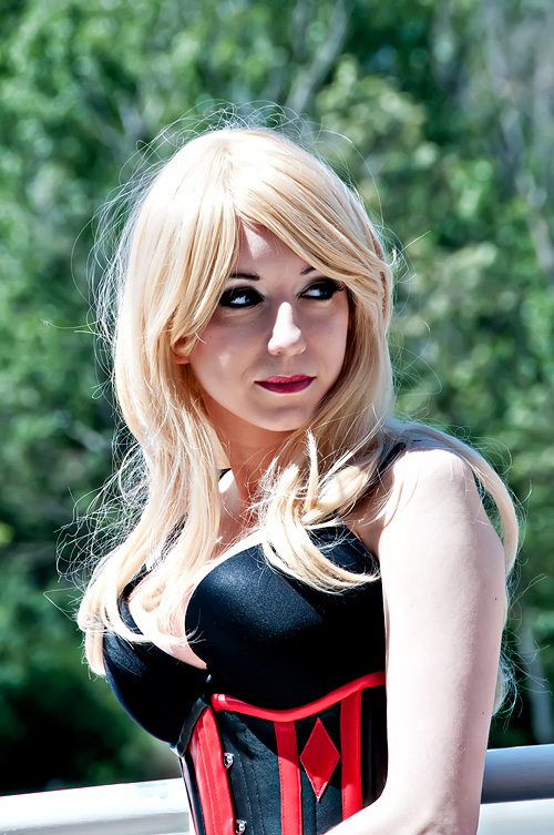 Geek Fashion Show at the 2013 Big Wow! ComicFest in San Jose, California. Riddle (Riki LeCotey) modelling a DC Comics-inspired Harley Quinn long line corset by Castle Corsetry.